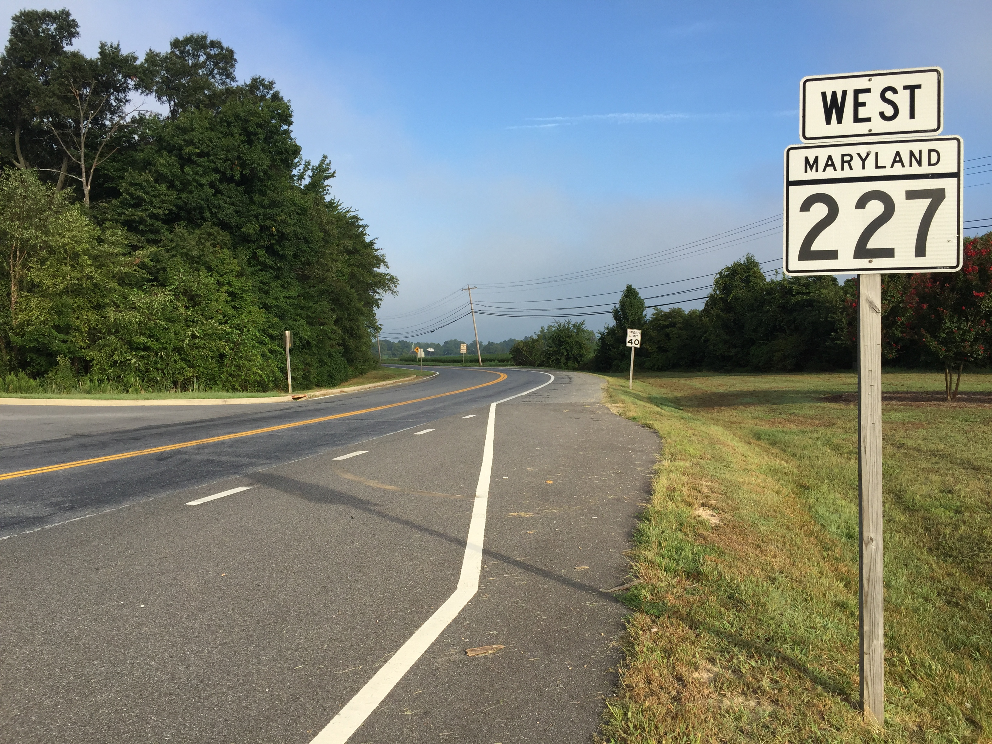 View west along Maryland State Route 227 (Marshall Corner Road) at U.S. Route 301 (Crain Highway) in Waldorf, Charles County, Maryland